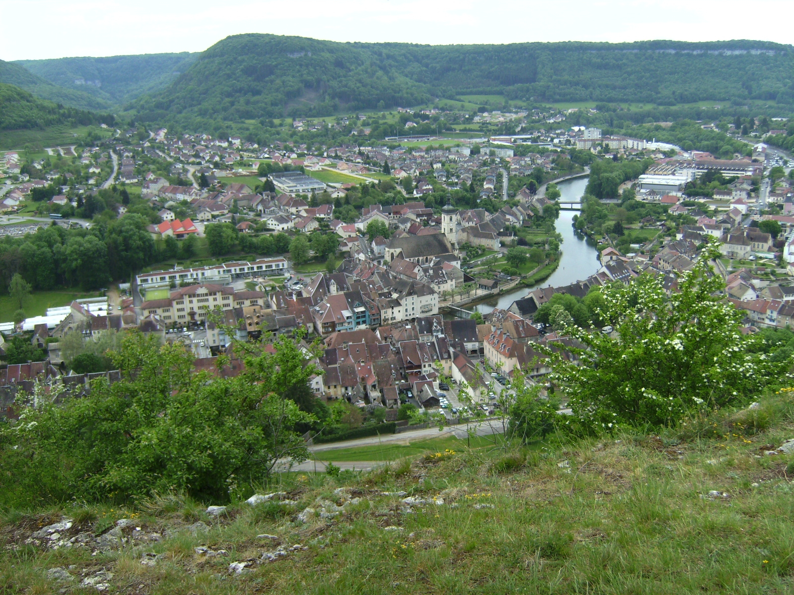 Ornans from Roche du Mont